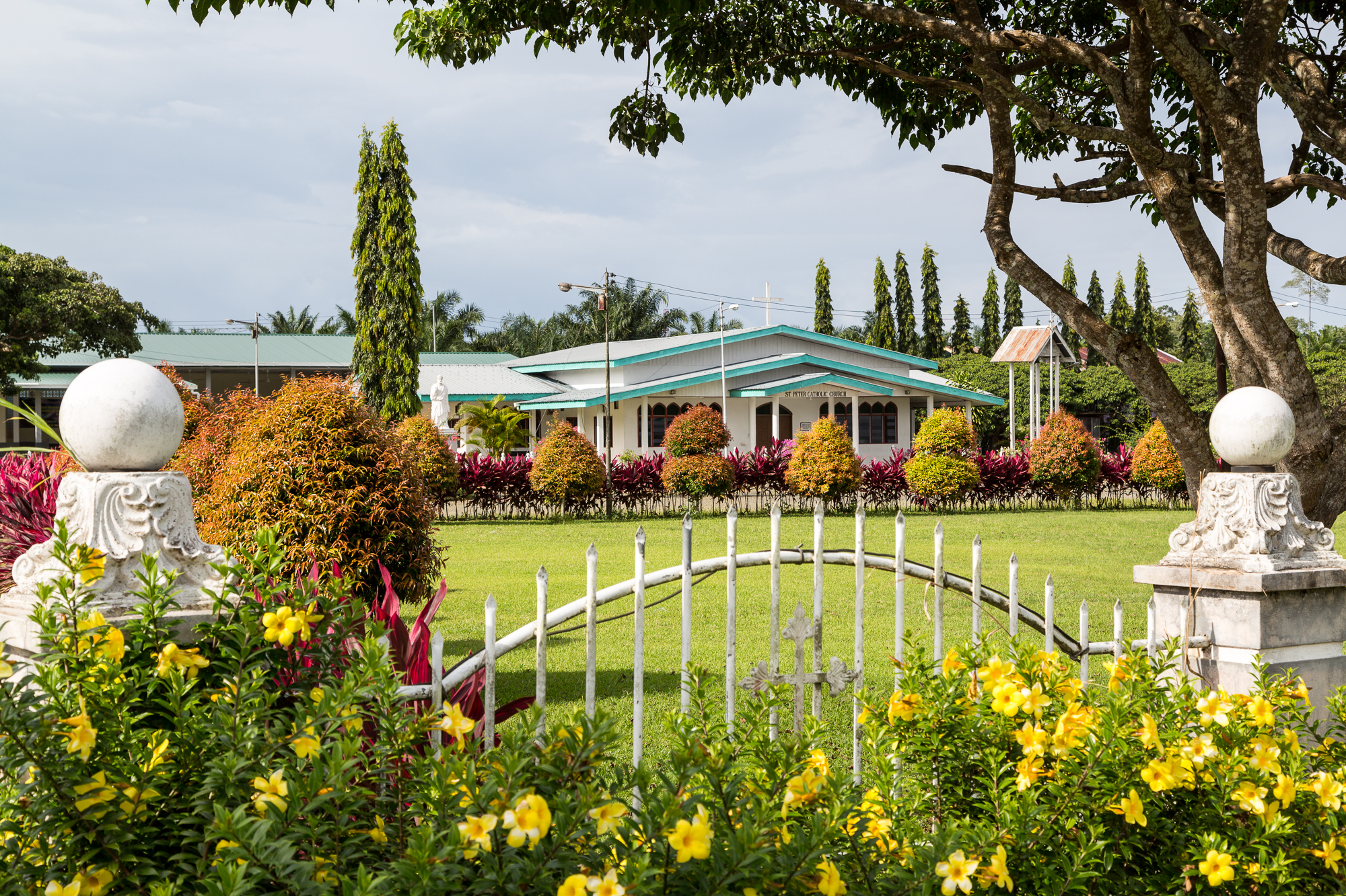 Kudat, Sabah:St. Peter's Catholic Church in Kg. Kadazan, km 7 Jalan Kunak Tawau